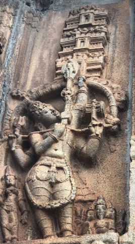 Sculptures on the exterior of the Vidyashankar temple, built in 1338 CE. Temple combines Hoysala and Chozha architectural styles.